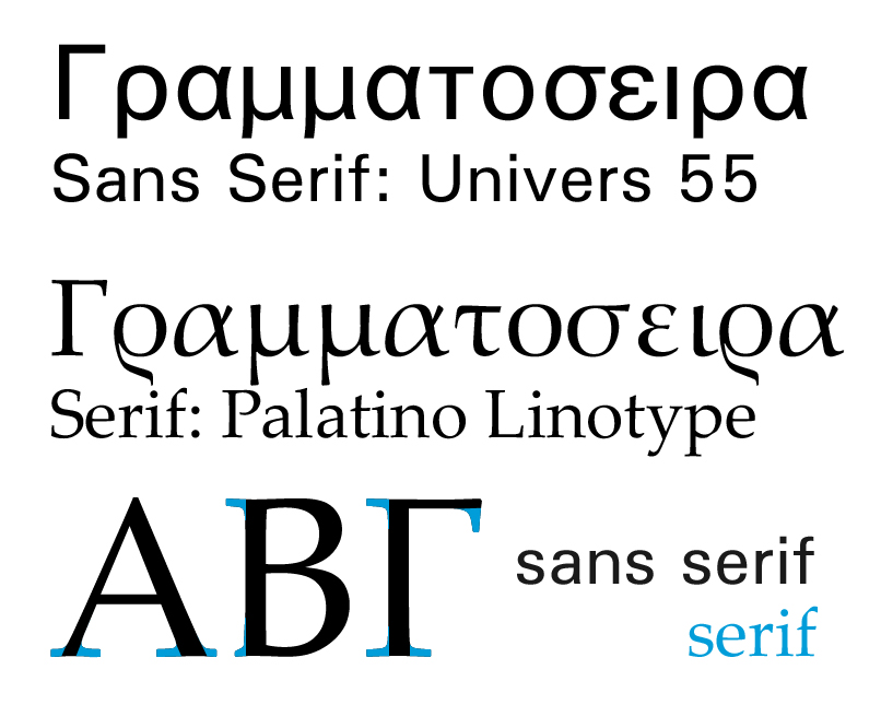 Greek fonts examples